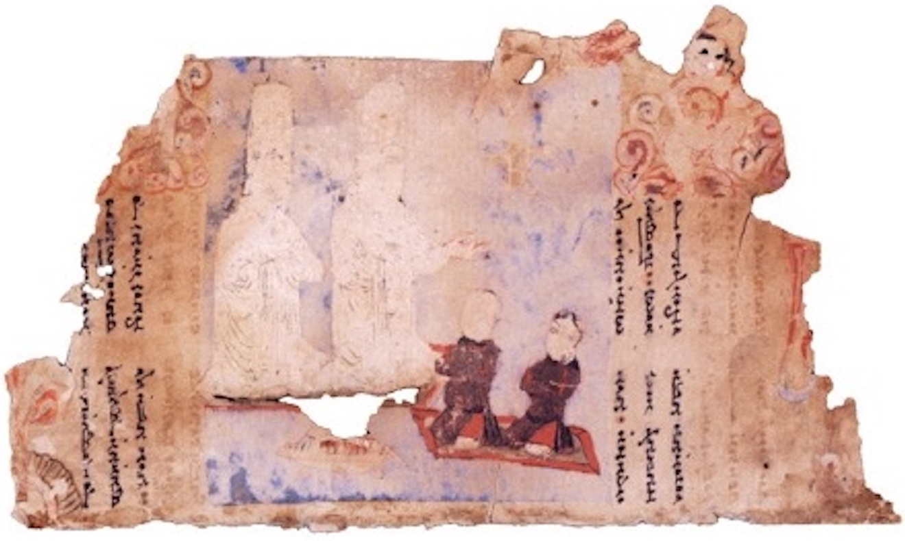 Fragment of Uyghur Manichaean service book illuminated with Salvation of the Light with God’s Hand. Kocho, mid 9th / early 11th century (MIK III 4974 recto, Asian Art Museum, Berlin).